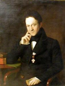 Portrait of Adolf Callisen